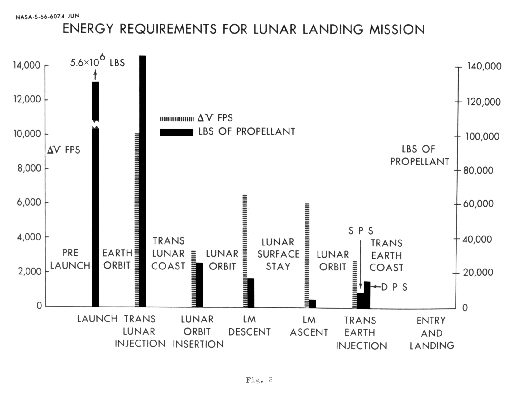 Energy Requirements for Apollo Lunar Landing Mission 1966